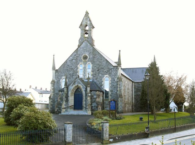 The four hill churches (Trinity Presbyterian), Omagh. It is located in John Street and is the longest established church site in the town. The new church was opened on the 7th September, 1856 by Rev Dr Henry Cooke, DD, LLD from Belfast. There were two services on that day, one in the morning and a later one in the evening. In "The People of Trinity" book (joint authors John McCandless and Claire McElhinney) it was reported that the Rev Dr Cooke received £3.00 for his labours. There is a plaque of Dr. Cooke located at the front wall of Omagh Orange Hall 931823